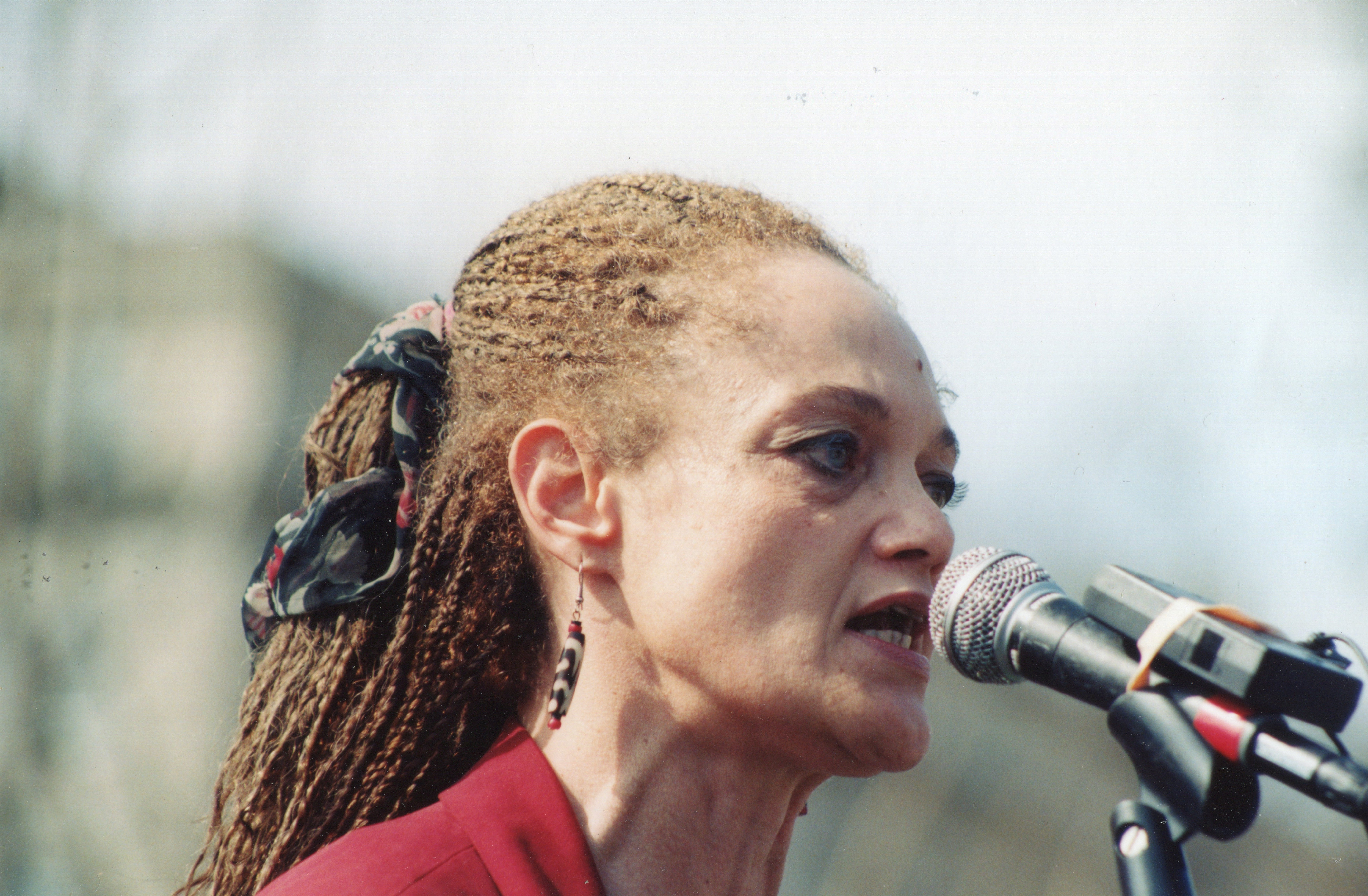 Free U.S. Political Prisoners Spring Break JERICHO MARCH RALLY across from the White House at Lafayette Park, NW, Washington DC on Friday, 27 March 1998 by Elvert Barnes Protest Photography Kathleen Cleaver National Jericho Movement at Learn more about the Spring Break JERICHO '98 MARCH at Learn more about JERICHO '98 at Original outline document pertaining to Spring Break JERICHO '98 MARCH at Elvert Barnes Protest Photography at